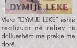 Dy mije leke te dallueshem ne prekje